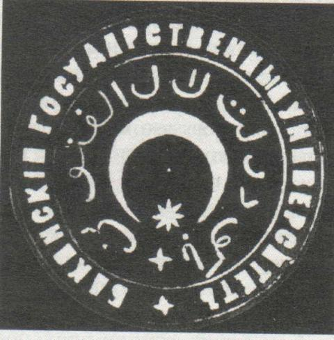 Coat of arms of Baku State University in 1919.